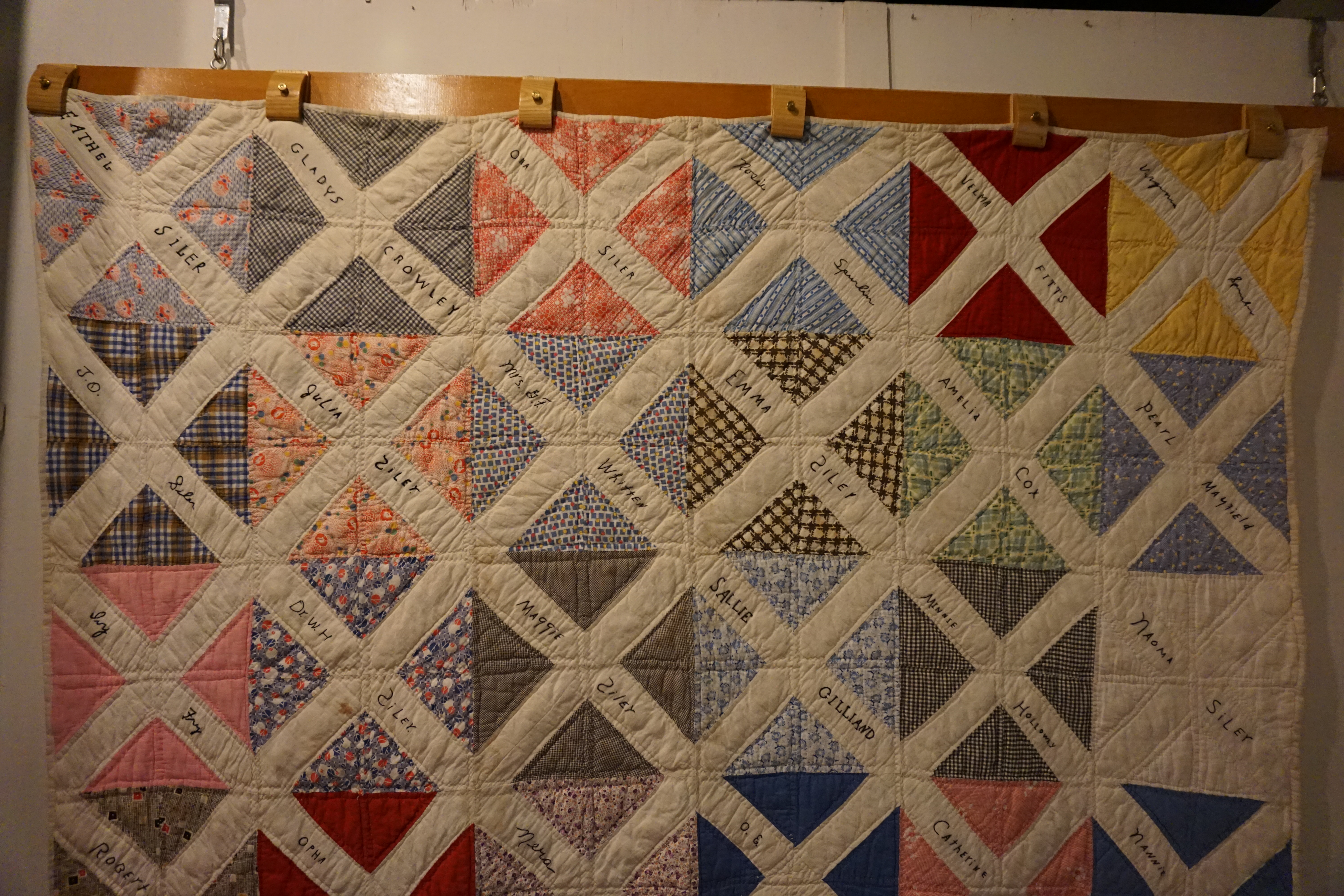 A circa 1920 friendship quilt at the Audie Murphy American Cotton Museum in Greenville, Texas (United States).